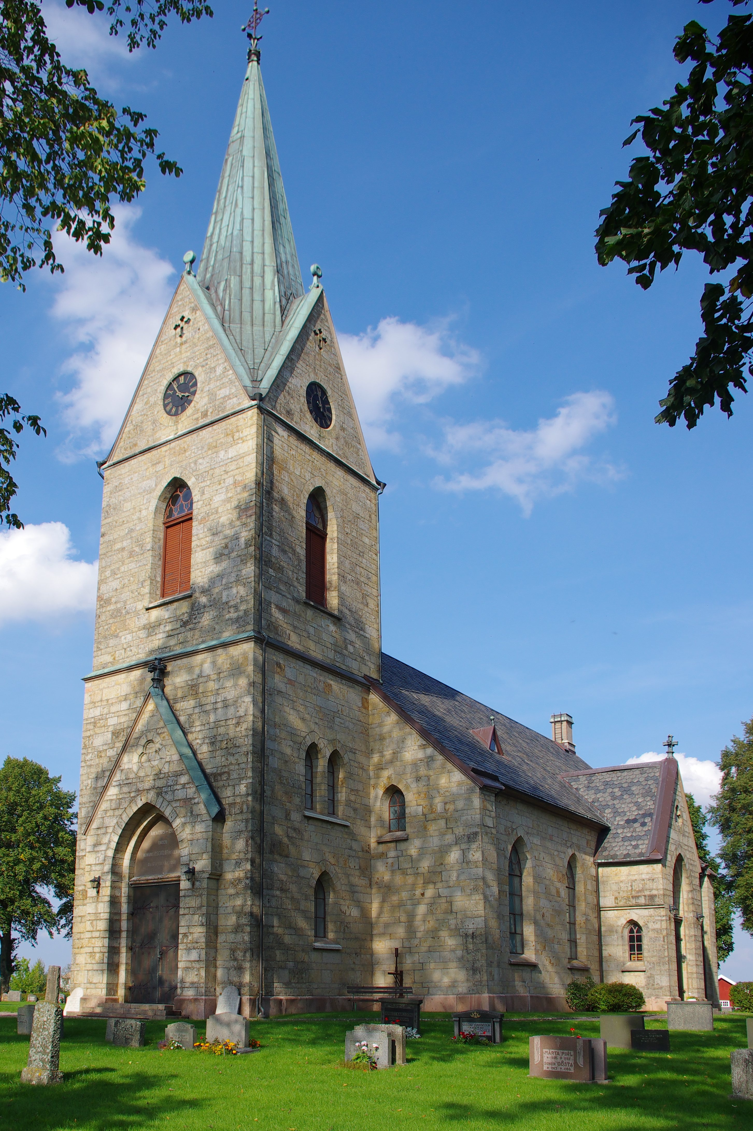 Synnerby kyrka (english:Synnerby church) in Västergötland and Skara municipality in Västragötaland county, Sweden.